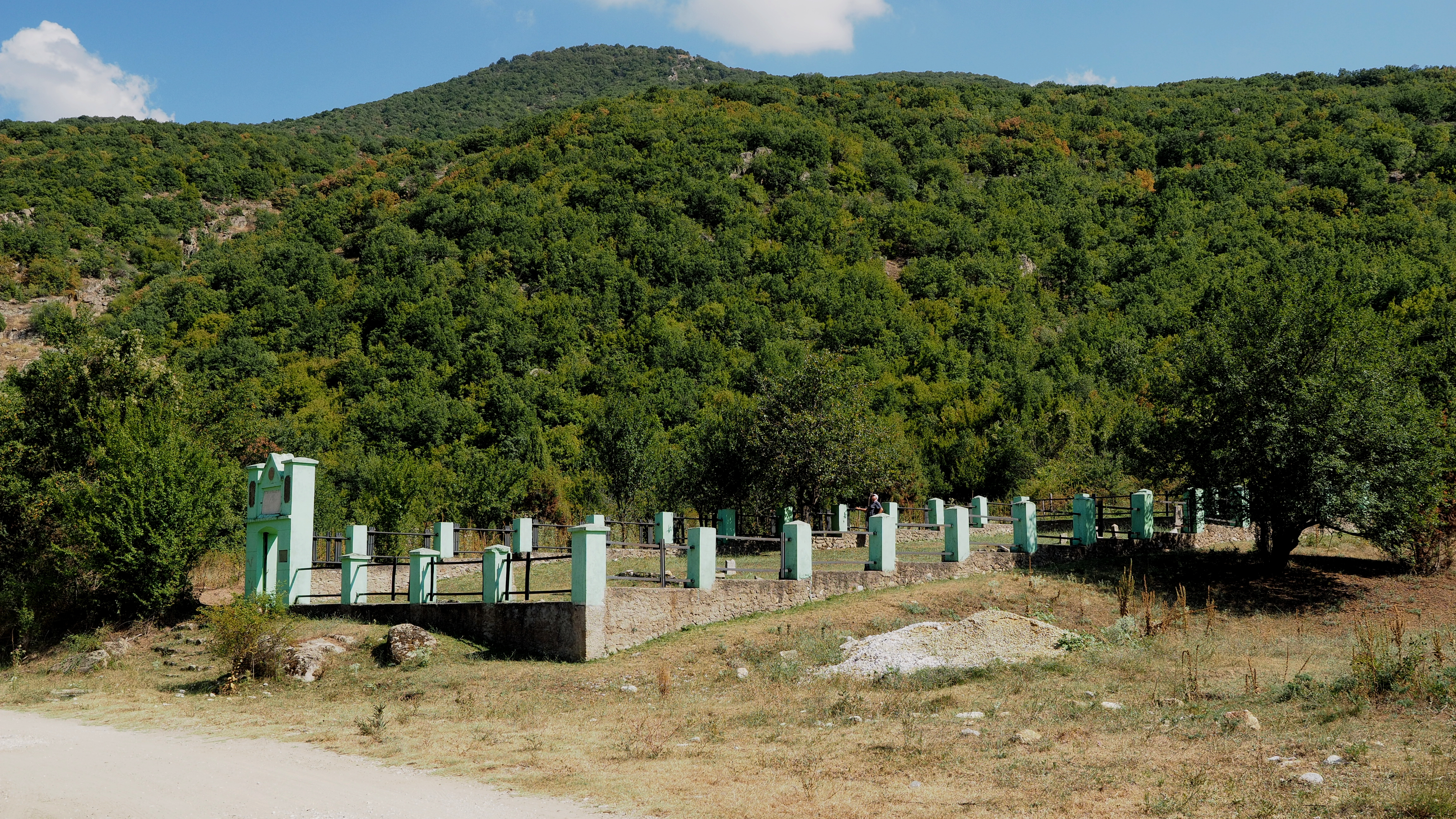 Serbian military cemetery from 1WW, near Skočivir, Thessaloniki front (Solunski front)